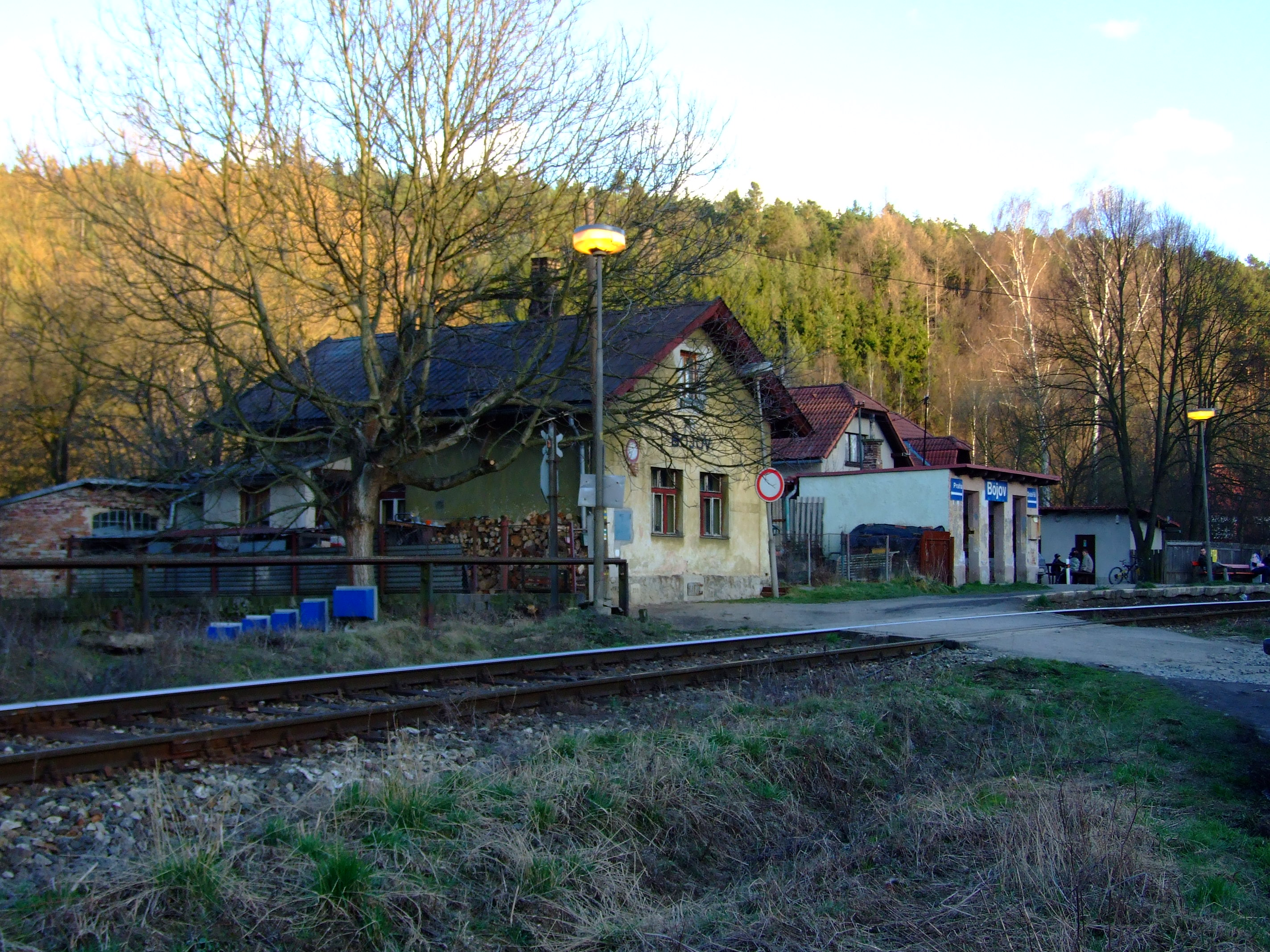 Train station in Bojov, Central Bohemian region, CZ